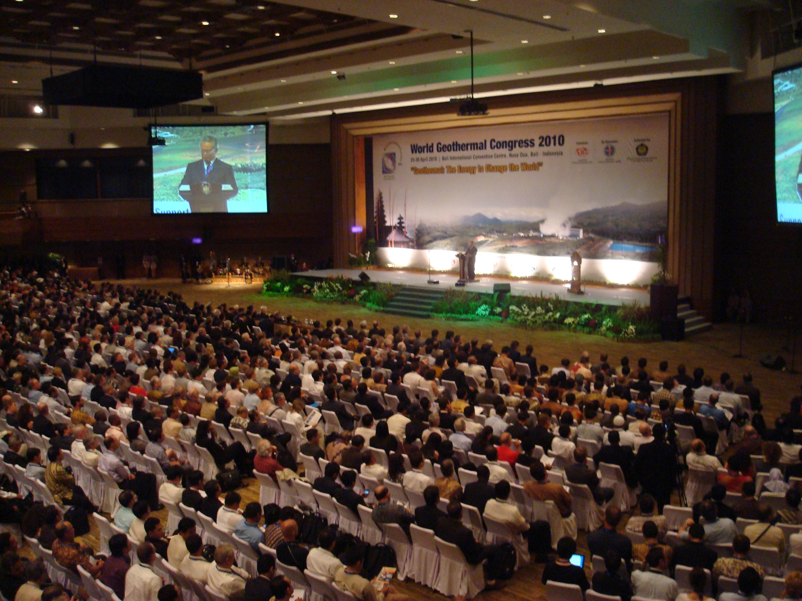 World Geothermal Congress 2010, Bali, Indonesia, Trade Show